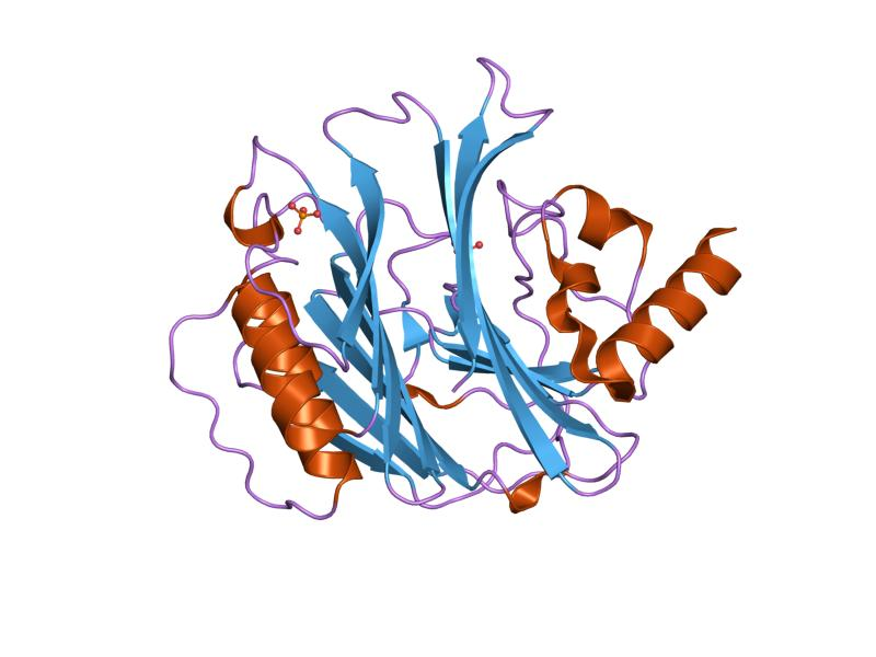 Cartoon representation of the molecular structure of protein registered with 1hzg code.